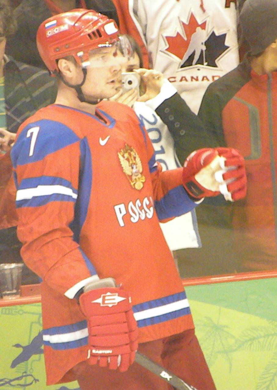 Dmitri Kalinin of the Russia men's national ice hockey team, warming up before a match against the Latvia men's national ice hockey team in the 2010 Winter Olympics at Canada Hockey Place on February 16, 2010.